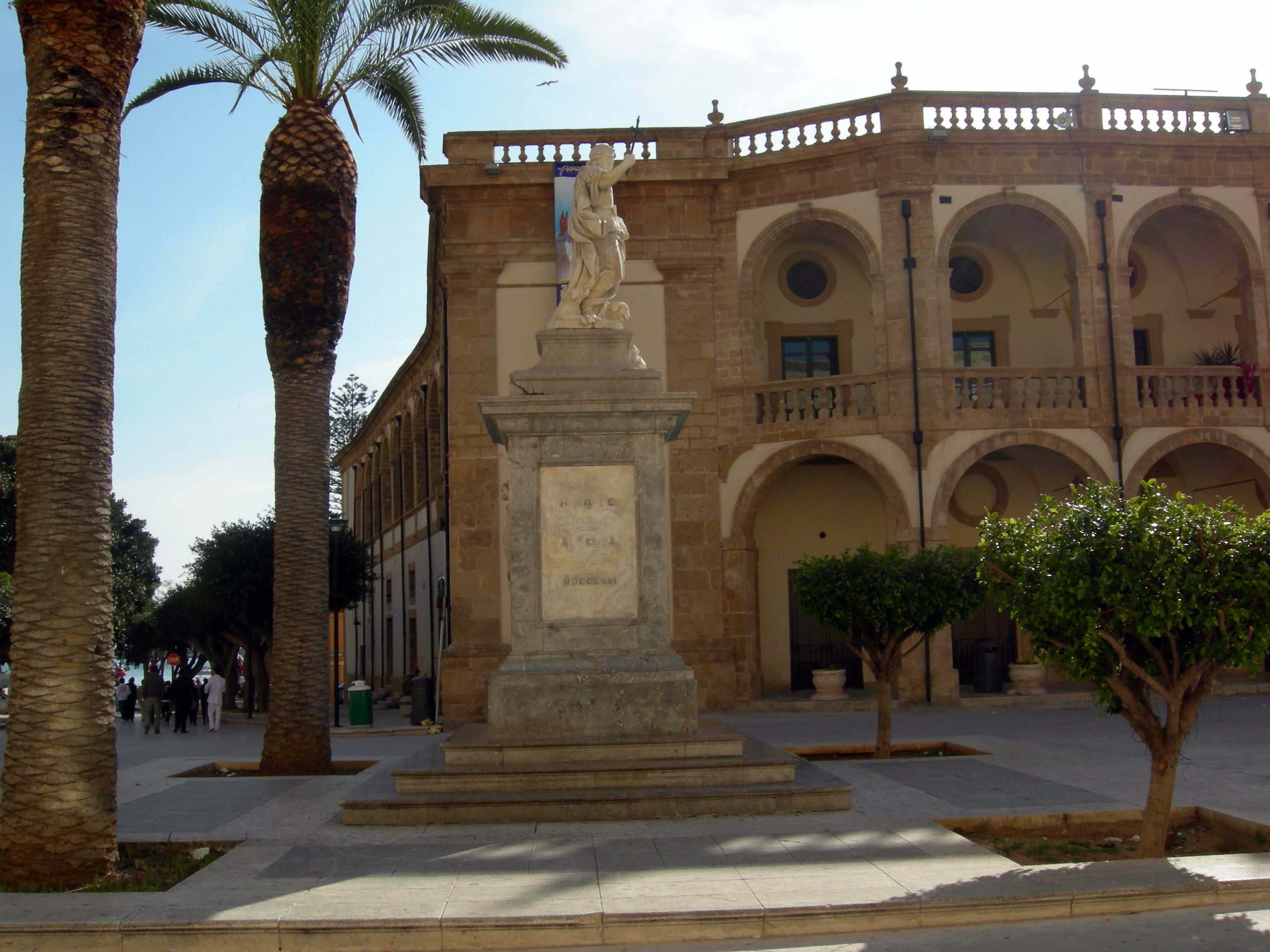 Ignazio Marabitti, St. Vitus Statue at Piazza della Repubblica, Mazara del Vallo, Sicily, Italy